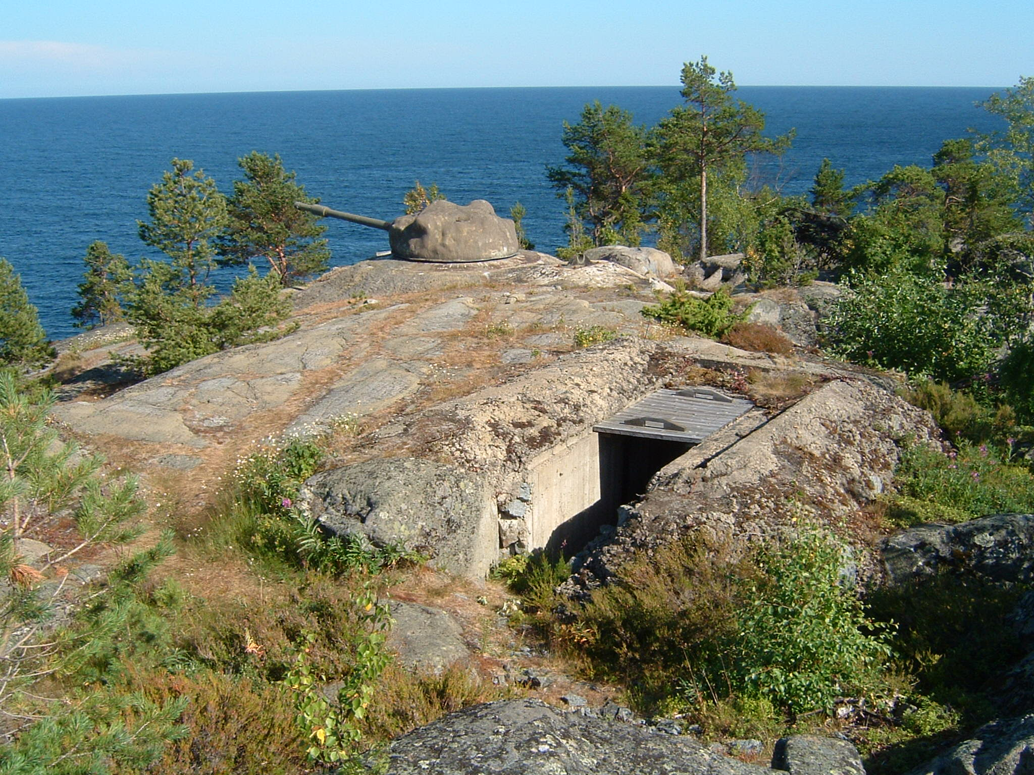 The stronghold "Hemsö fästning" on the island of Hemsön in Härnösand Municipality, coastal artillery gun and bunker opening